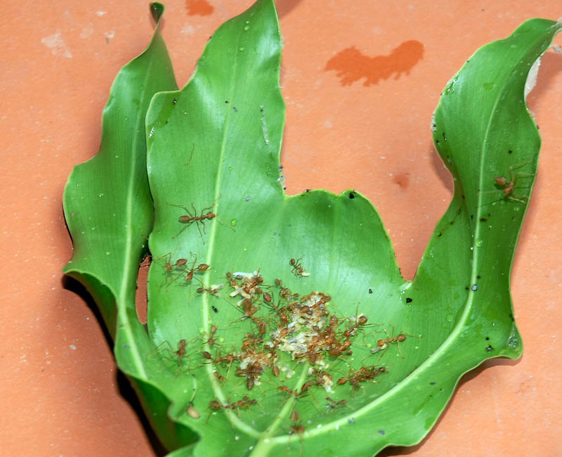 Malaysian fire ants and pupae